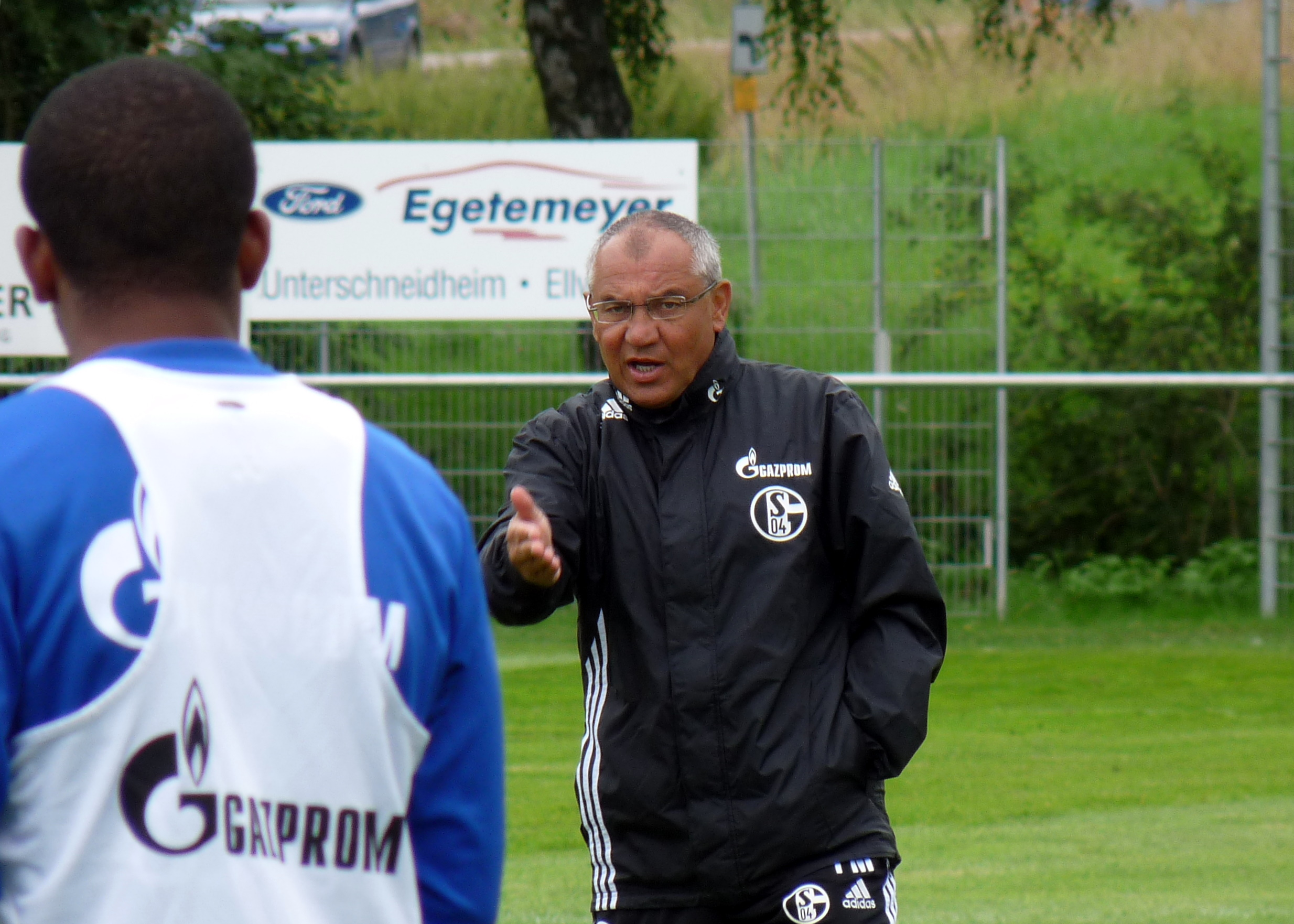 Felix Magath (right) and Jefferson Farfan (left)